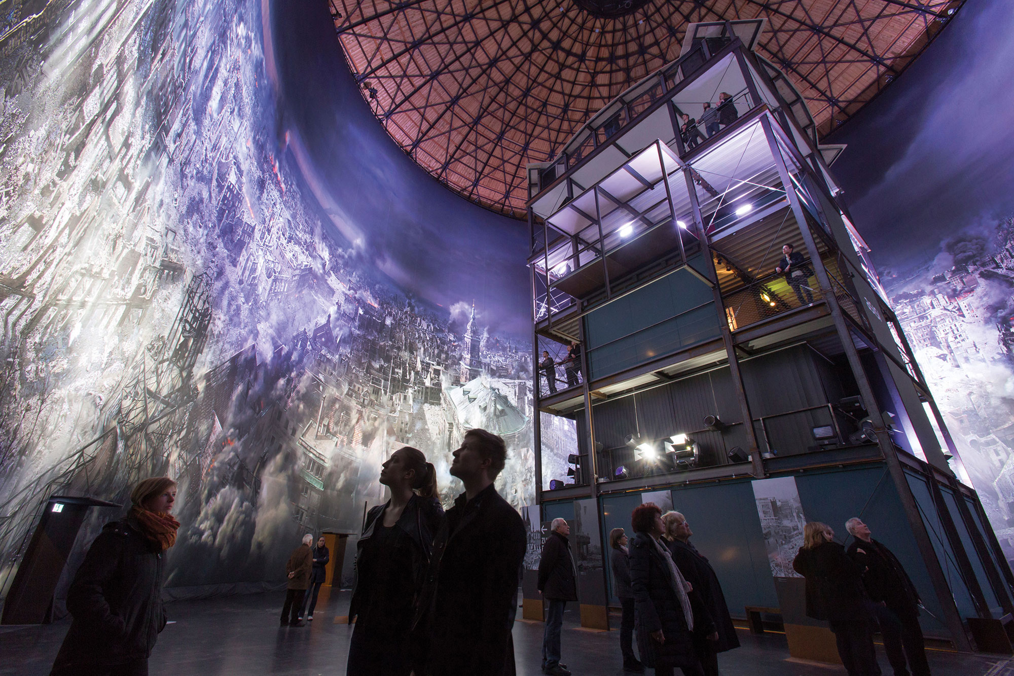 Visitors are spotting the Panorama DRESDEN 1945 (c) asisi